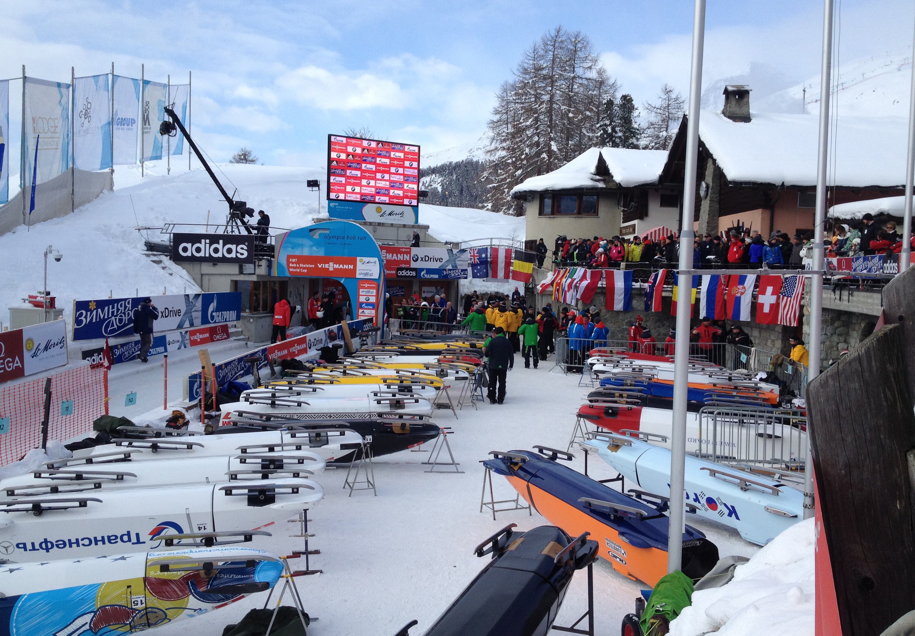 Sleds and starting line of the 2015 Bobsleigh World Cup race in St. Moritz, Switzerland.